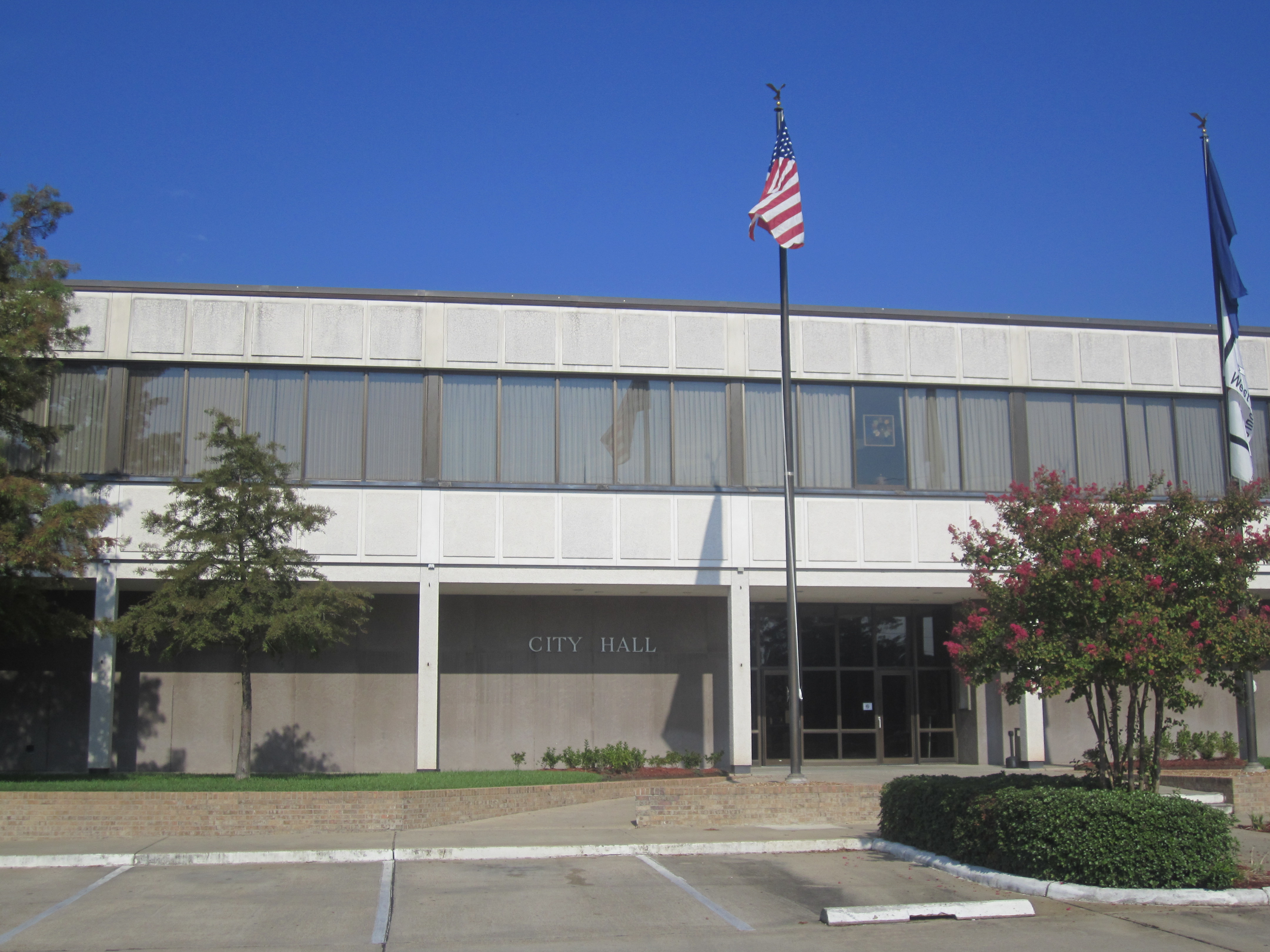 I took photo with Canon camera in West MOnroe, LA.